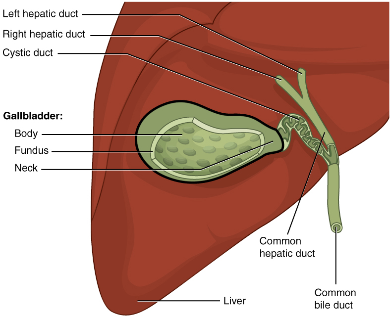 Illustration from Anatomy & Physiology, Connexions Web site. Jun 19, 2013.